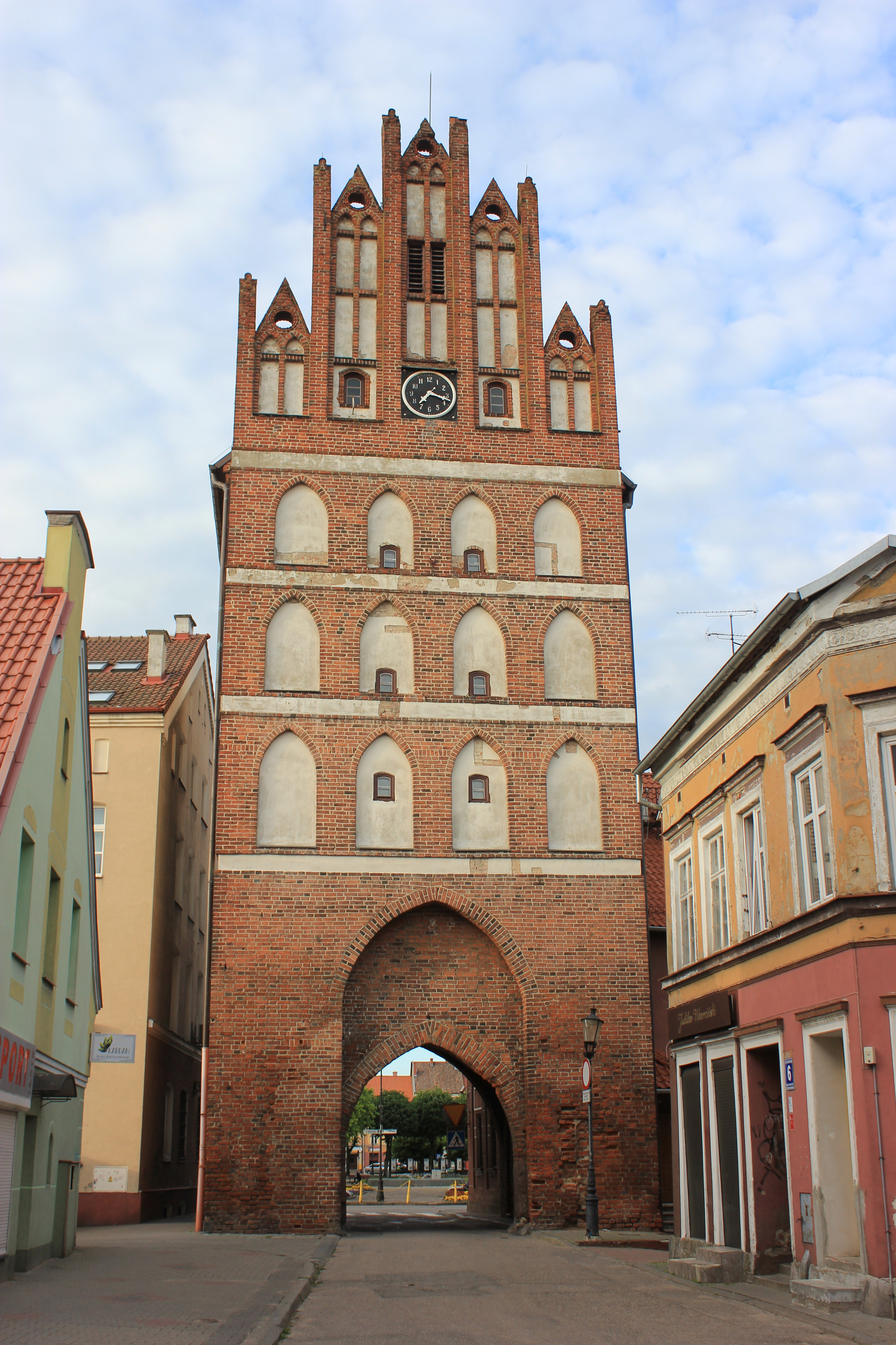 Bartoszyce - Lidzbark Gate